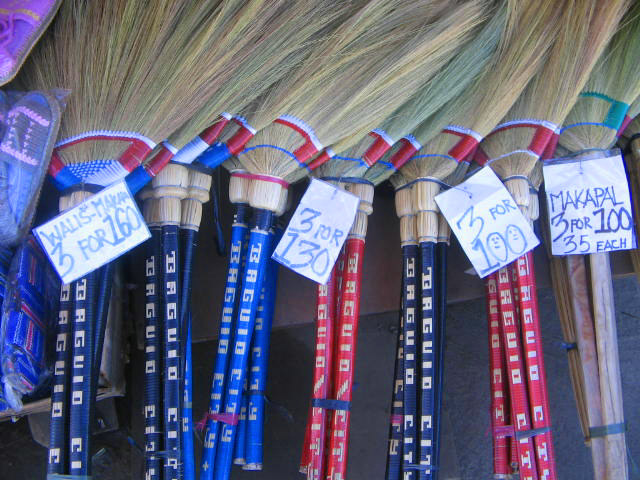 Brooms being sold in Baguio City, Philippines